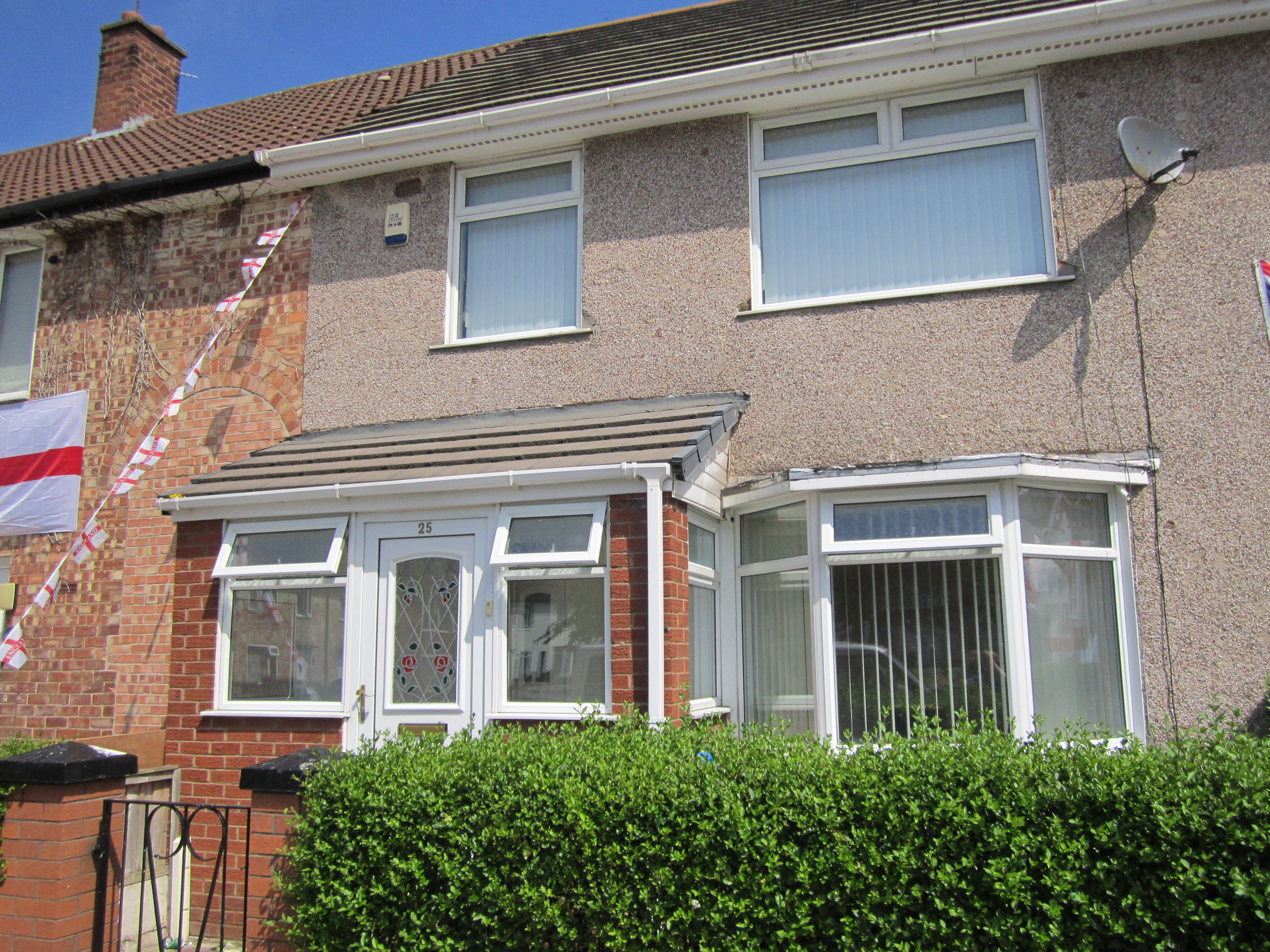 25 Upton Green, Speke, Liverpool, England. The second house that George Harrison lived in during his childhood.